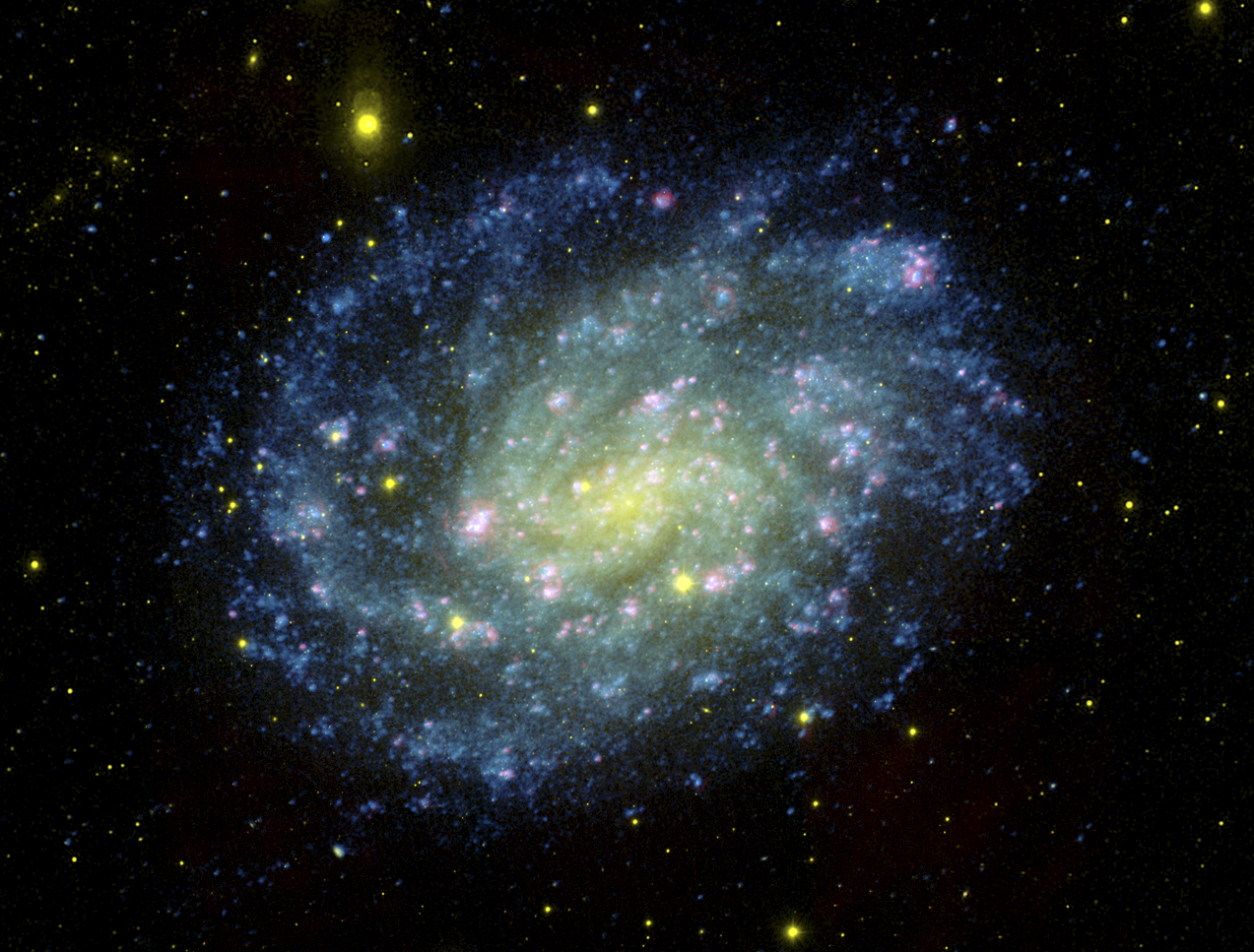 This color composite image of nearby NGC 300 combines the visible-light pictures from Carnegie Institution of Washington's 100-inch telescope at Las Campanas Observatory (colored red and yellow), with ultraviolet views from NASA's Galaxy Evolution Explorer. Galaxy Evolution Explorer detectors image far ultraviolet light (colored blue). This composite image traces star formation in progress. Young hot blue stars dominate the outer spiral arms of the galaxy, while the older stars congregate in the nuclear regions which appear yellow-green. Gases heated by hot young stars and shocks due to winds from massive stars and supernova explosions appear in pink, as revealed by the visible-light image of the galaxy. Located nearly 7 million light years away, NGC 300 is a member of a nearby group of galaxies known as the Sculptor Group. It is a spiral galaxy like our own Milky Way.